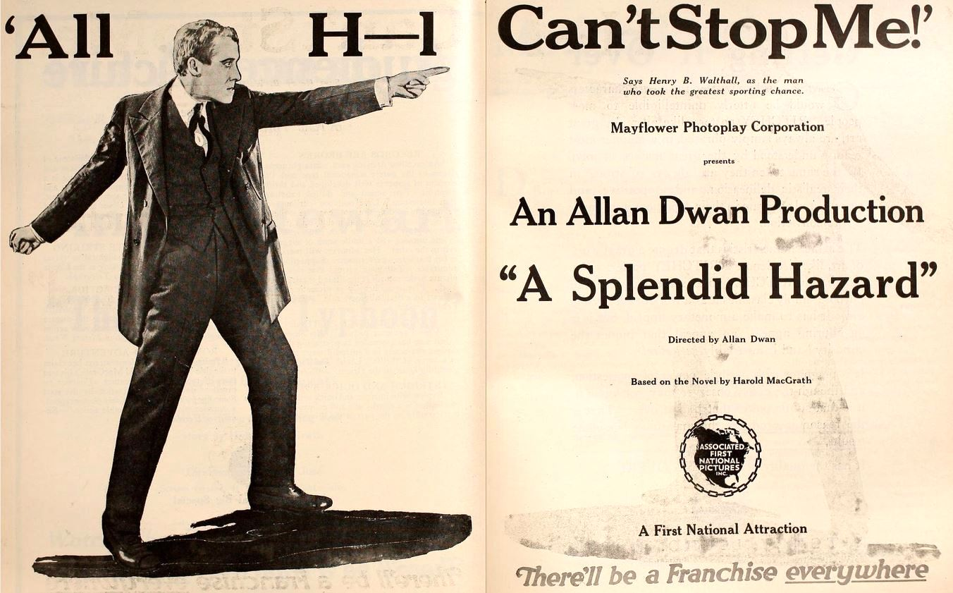 Advertisement for the American drama film A Splendid Hazard (1920) with Henry B. Walthall, on pages 4454 and 4455 of the May 29, 1920 Motion Picture News. The ad has a quote from the film, "All h---l can't stop me!", which reflects that a mildly profane word like "hell" would be edited to meet the demand of state censor boards at that time.